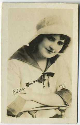 Real Photo Movie Card of Edna Maison